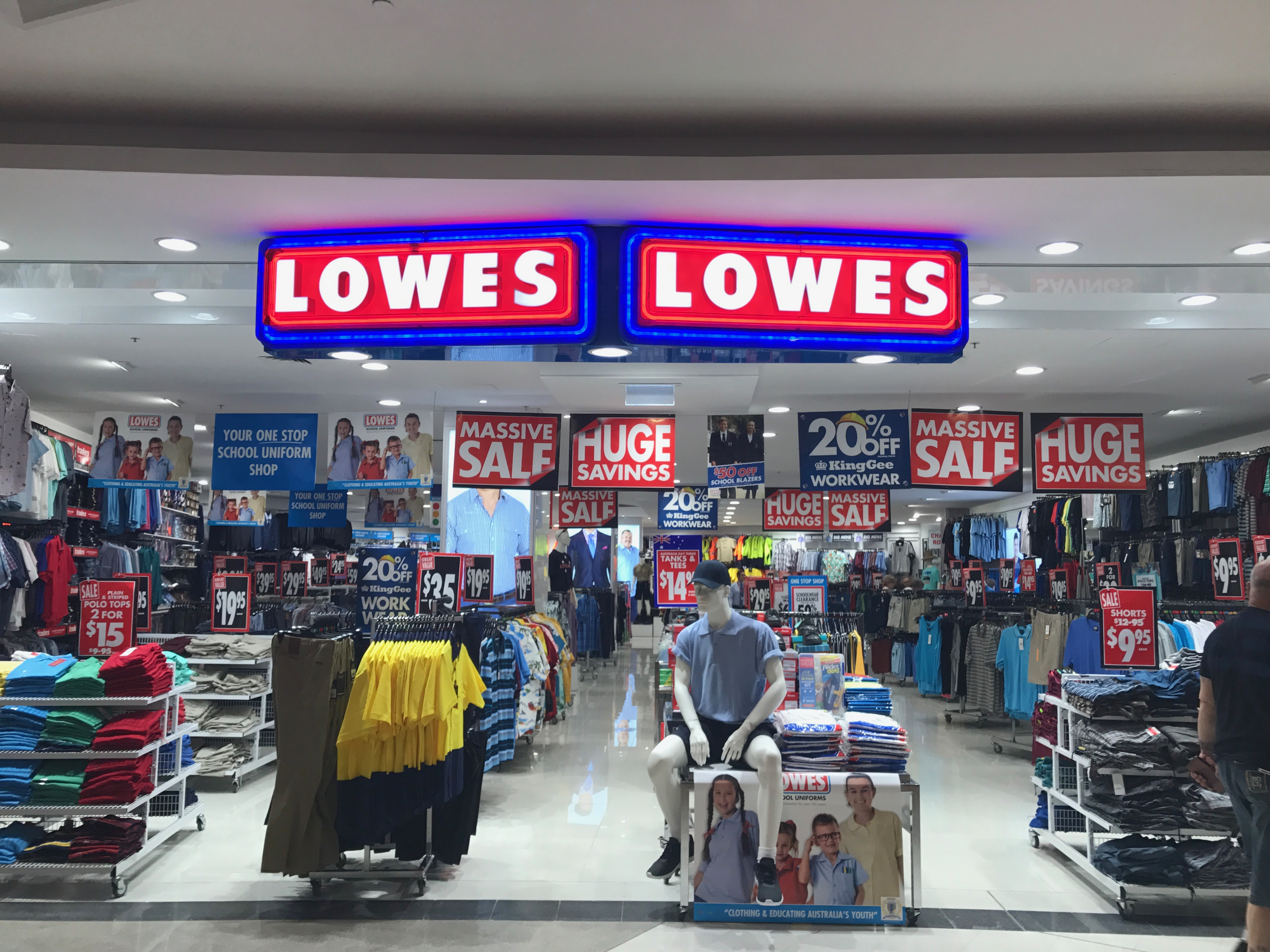 This is an updated photo of a current Lowes shop front visual display set up. This is a photo of the Miranda store in NSW.